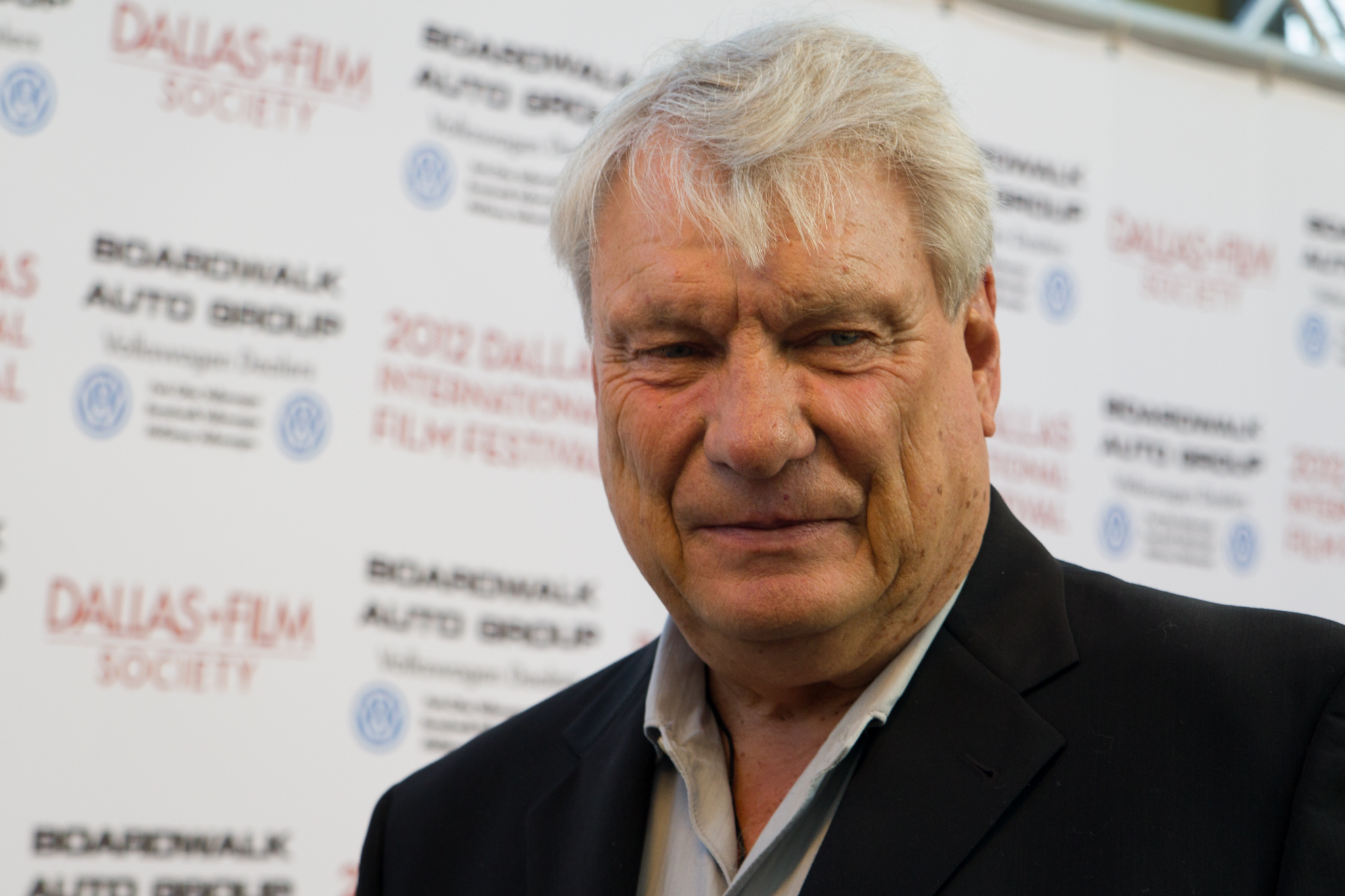 Men's professional basketball coach Don Nelson photographed on April 19, 2012 while attending the Dallas International Film Festival.